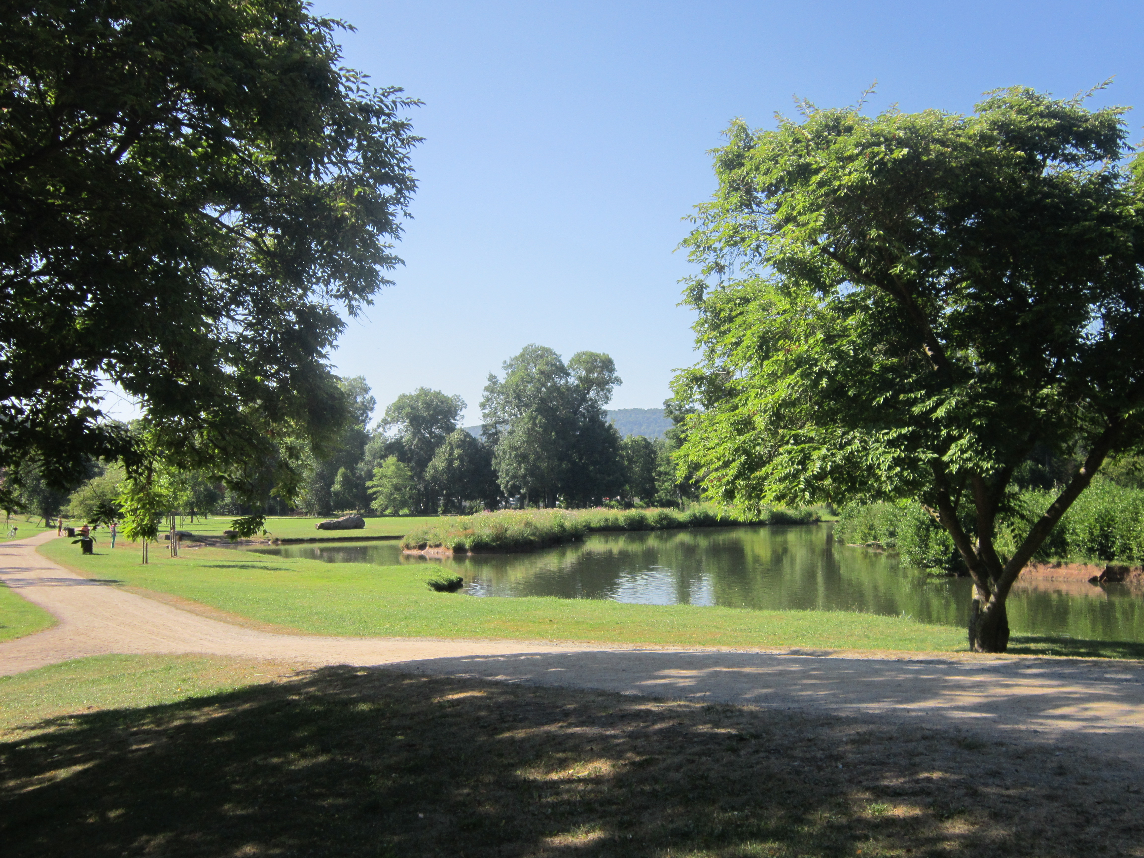 Meander of the "Fränkische Saale" with the "Saalestrand" in the "Luitpoldpark" in the German spa town of Bad Kissingen in Lower Franconia (Bavaria).